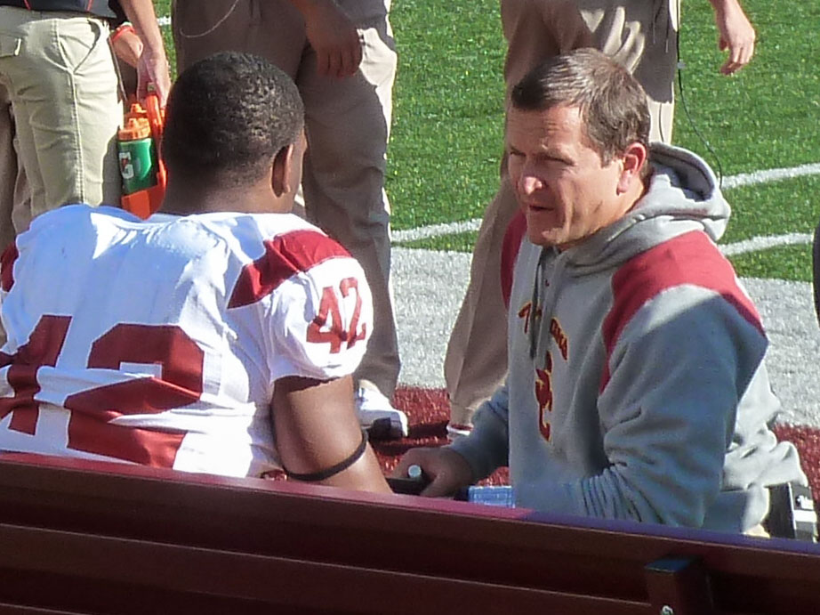 Then USC Trojans Linebackers Coach (and former player) Joe Barry coaching during a 2010 game at Minnesota.